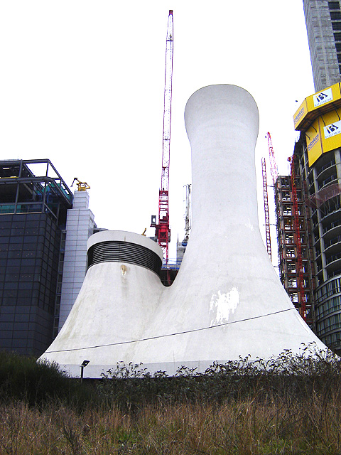 Northern ventilation towers, Blackwall Tunnell, Blackwall, Tower Hamlets, London. 4 February 2006. Photographer: Fin Fahey.